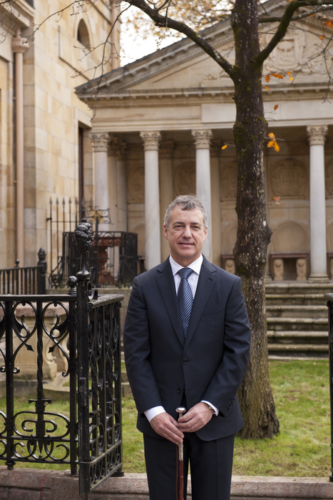 Basque Government's president Iñigo Urkullu in front of the Tree of Gernika during his swearing his position, 17th december 2012.